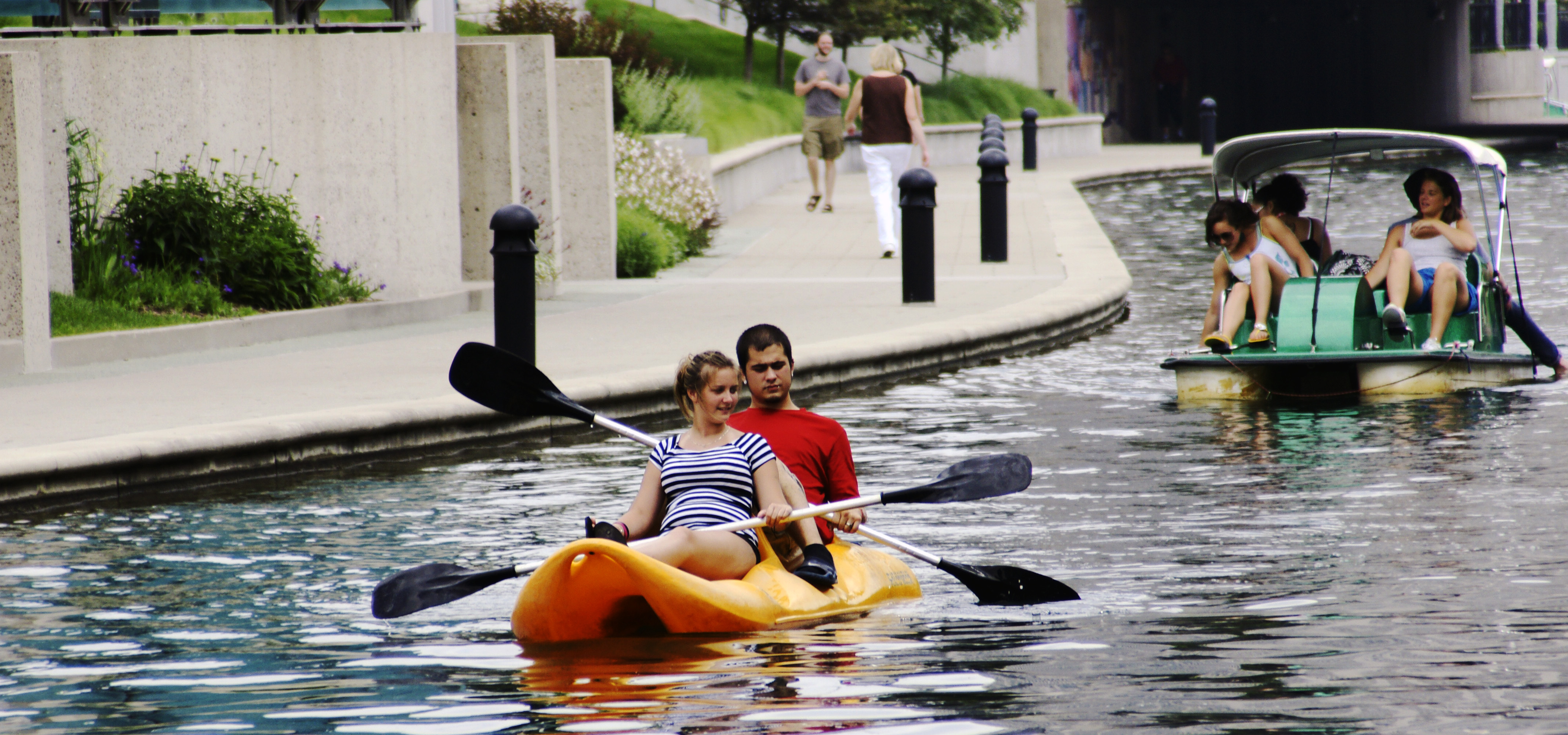 Kayaks and walkers pictured along the Indianapolis Canal Walk in 2010.